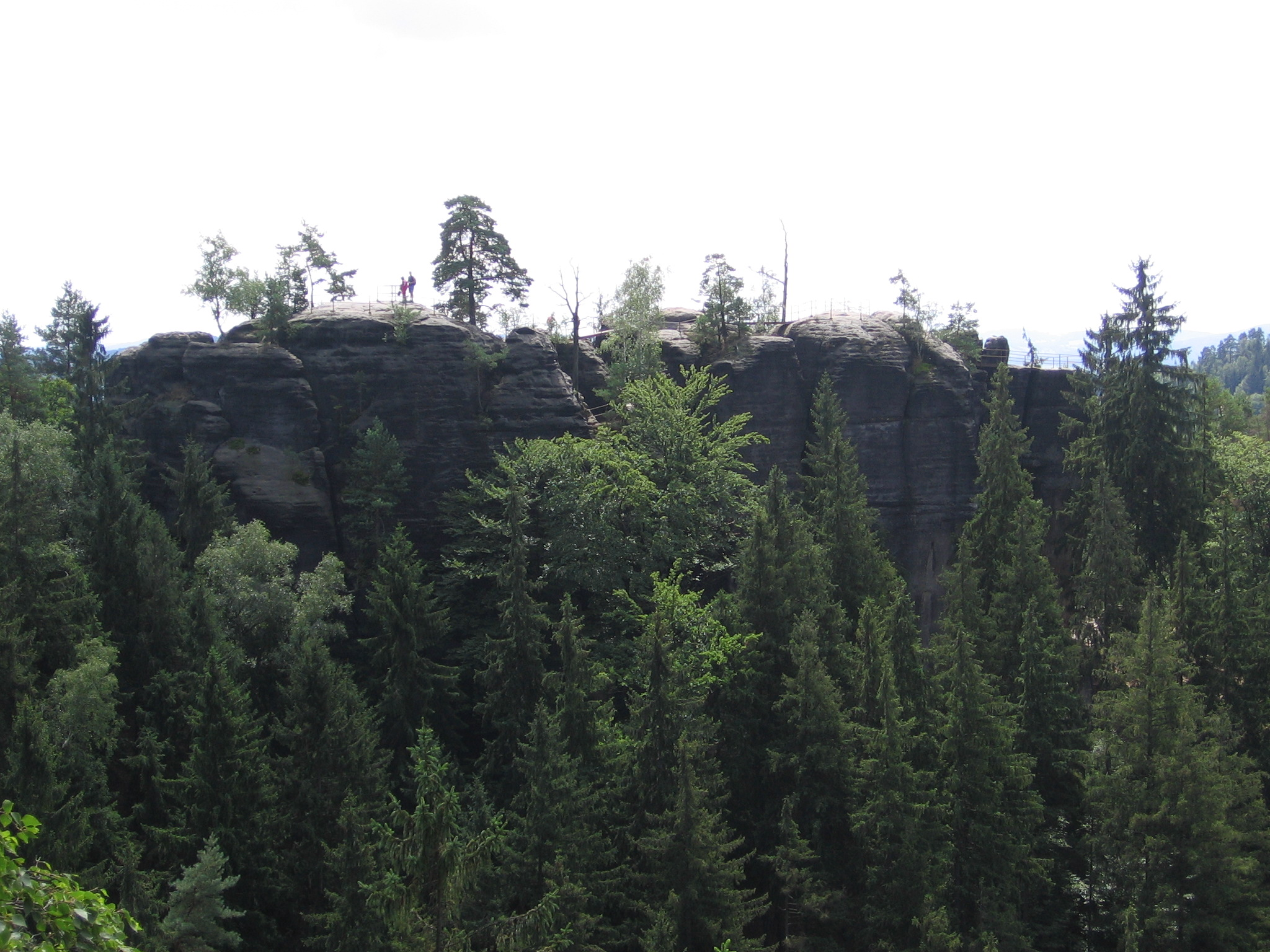 Rock Castle Šaunštejn - view from the north (National Park Bohemian Switzerland, Ústí nad Labem Region, Czech Republic)